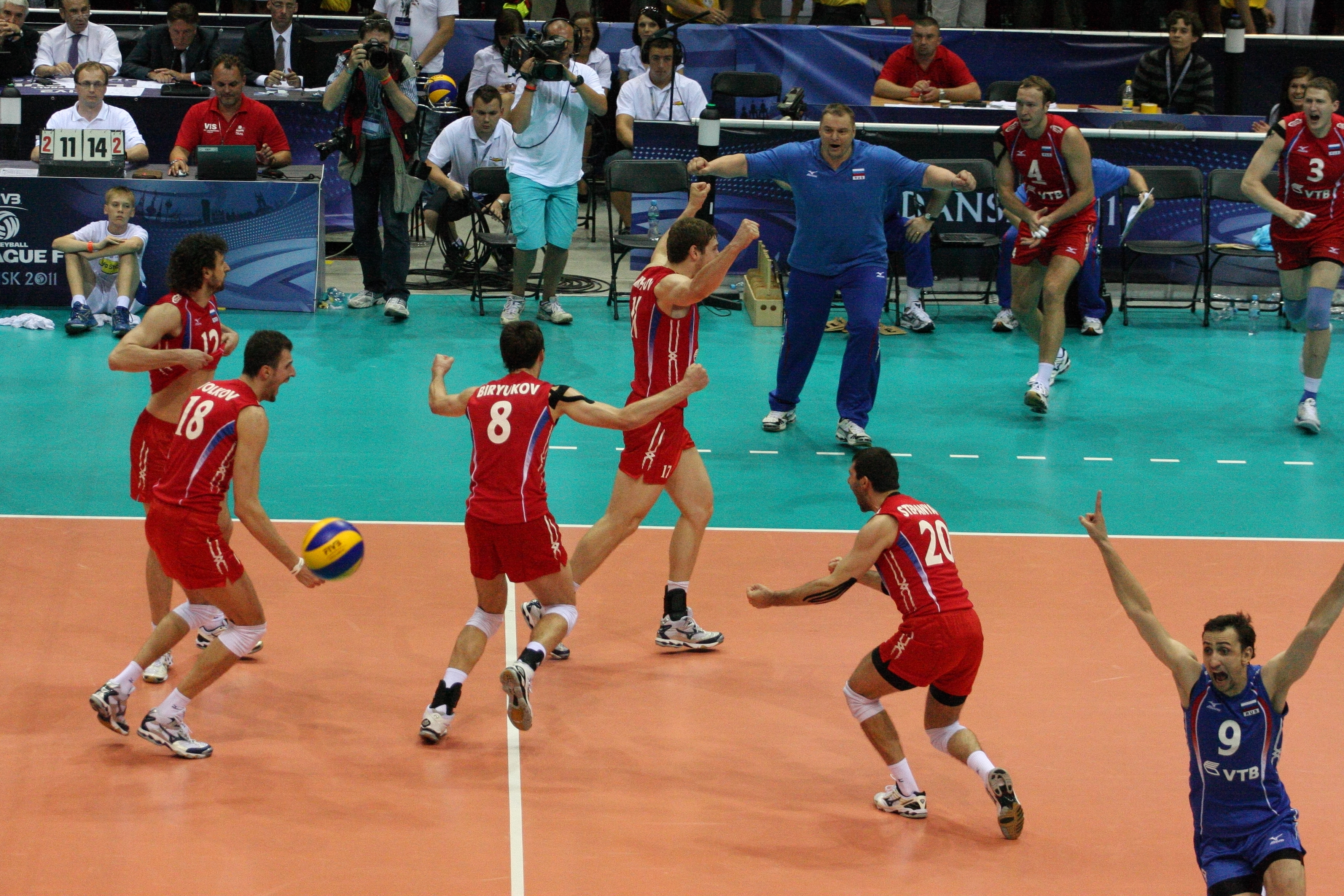 World League Final, Gdańsk 2011 Brazil vs Russia